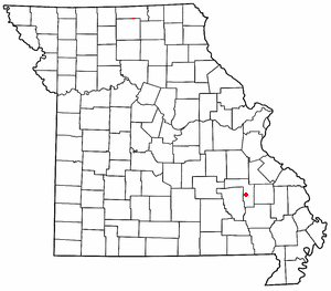 Modified from Image:MOMap-doton-Springfield.png